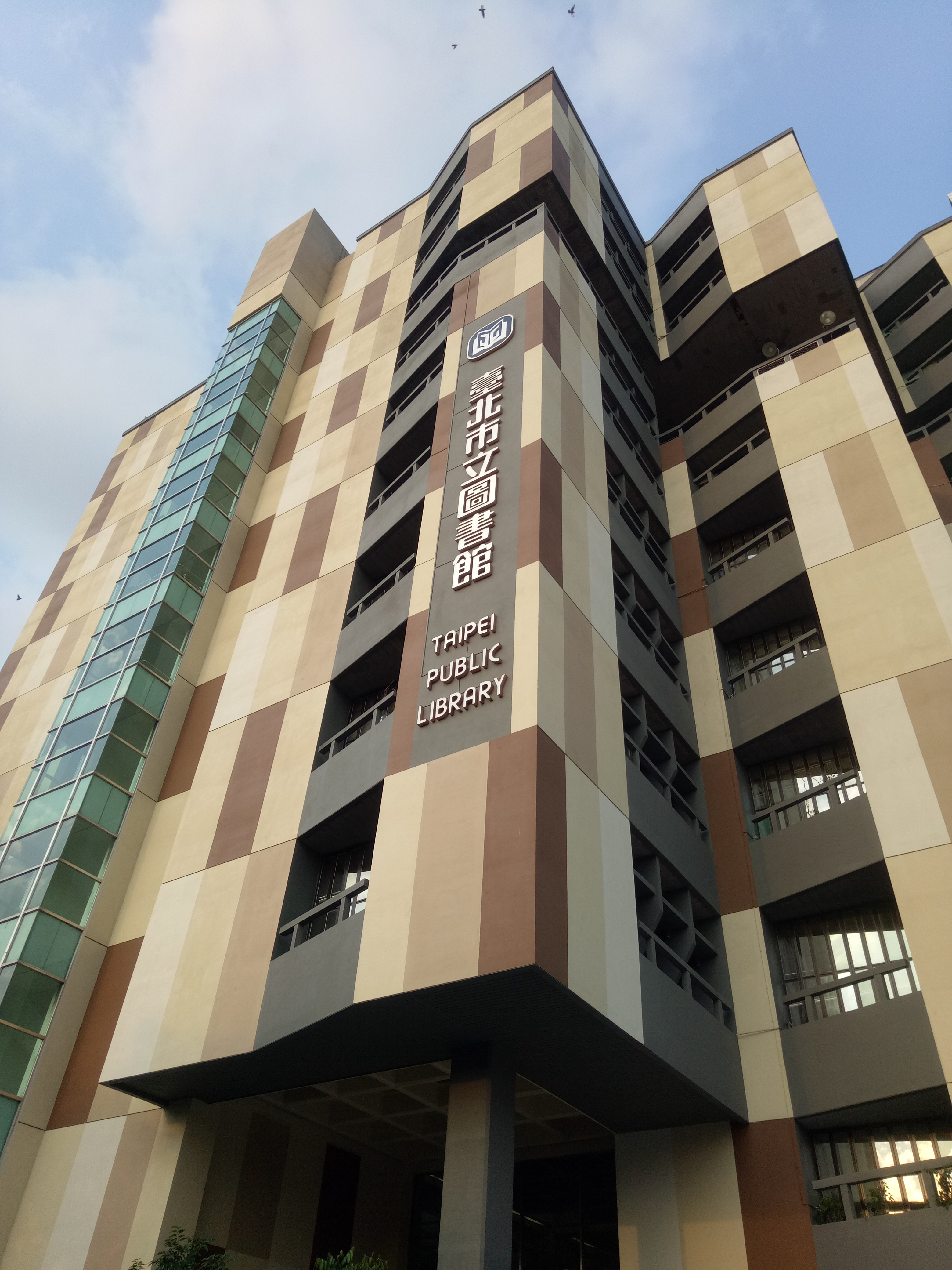 Taipei Public Library（Main Library）